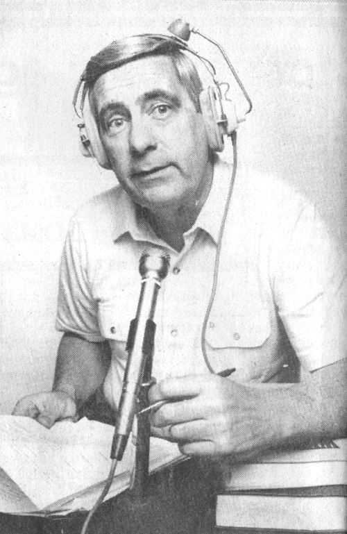 Bill Owen broadcasting as King of Trivia in the early 1980's